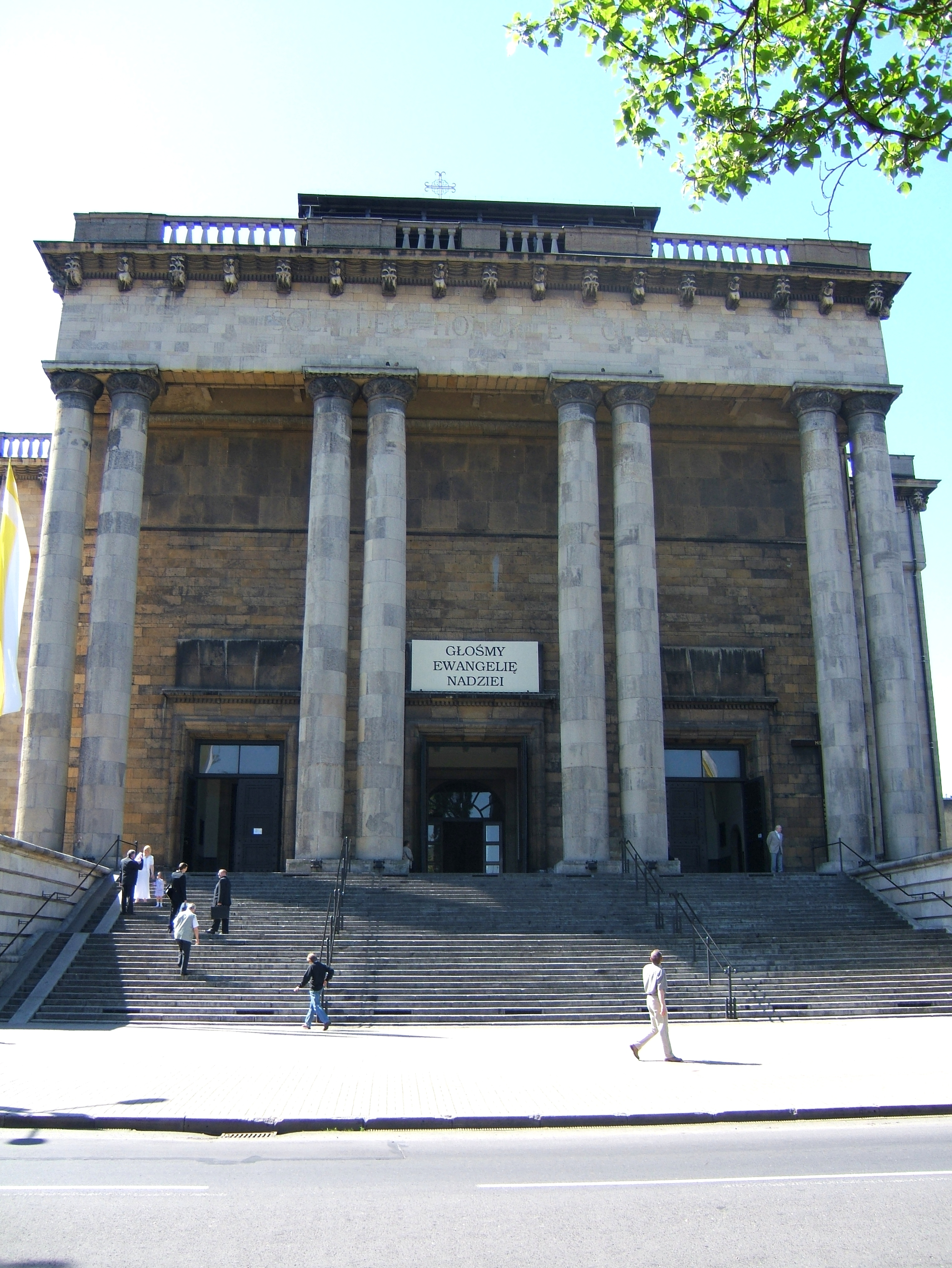 The Christ-The-King cathedral of the archdiocese in Katowice. Built from 1932 to 1955.